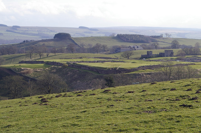 Vindolanda Roman Fort Photo taken from the hillside overlooking the fort to the north east